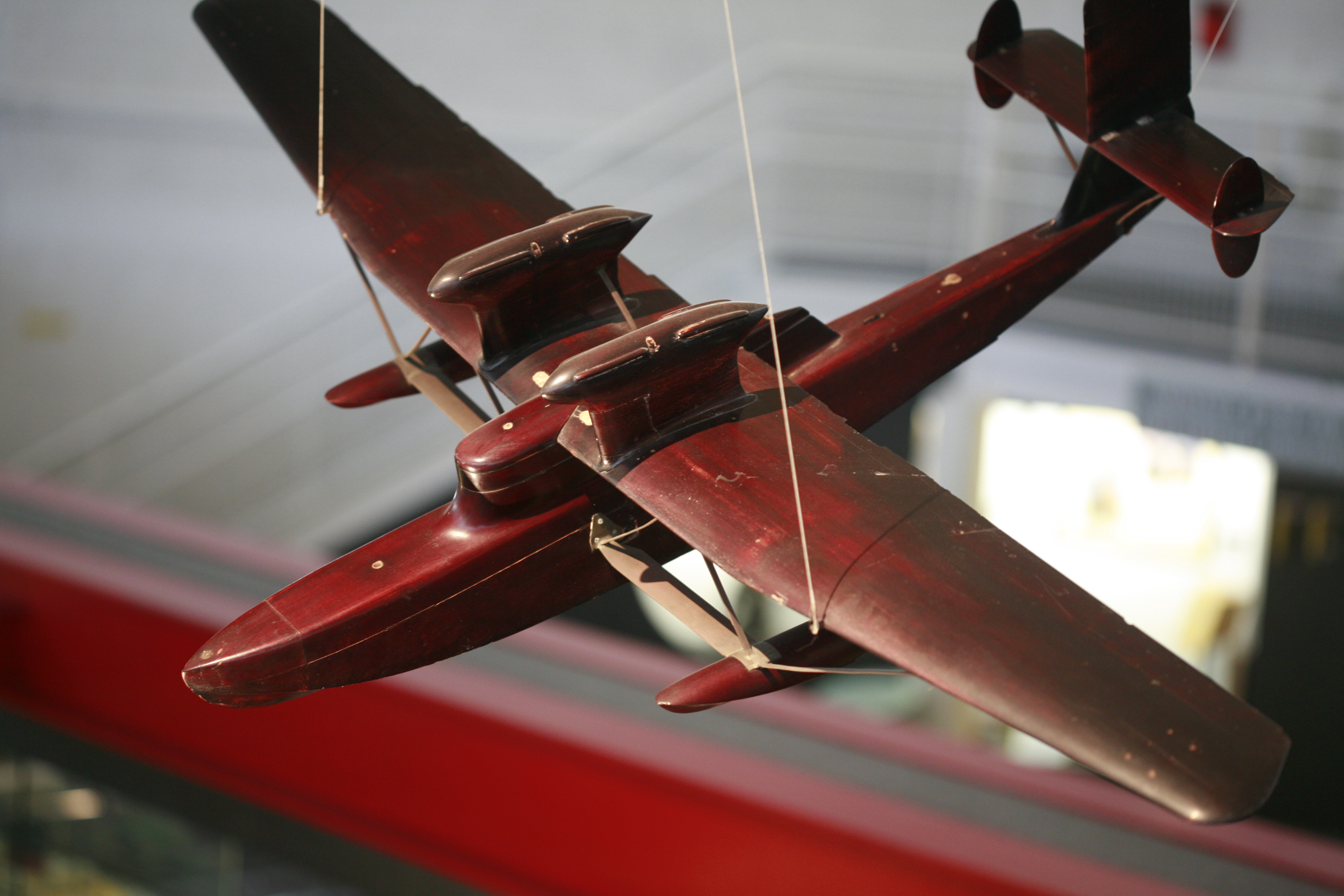 Wind tunnel model of a Loire 102 seaplane. On display at the Écomusée de Saint-Nazaire.